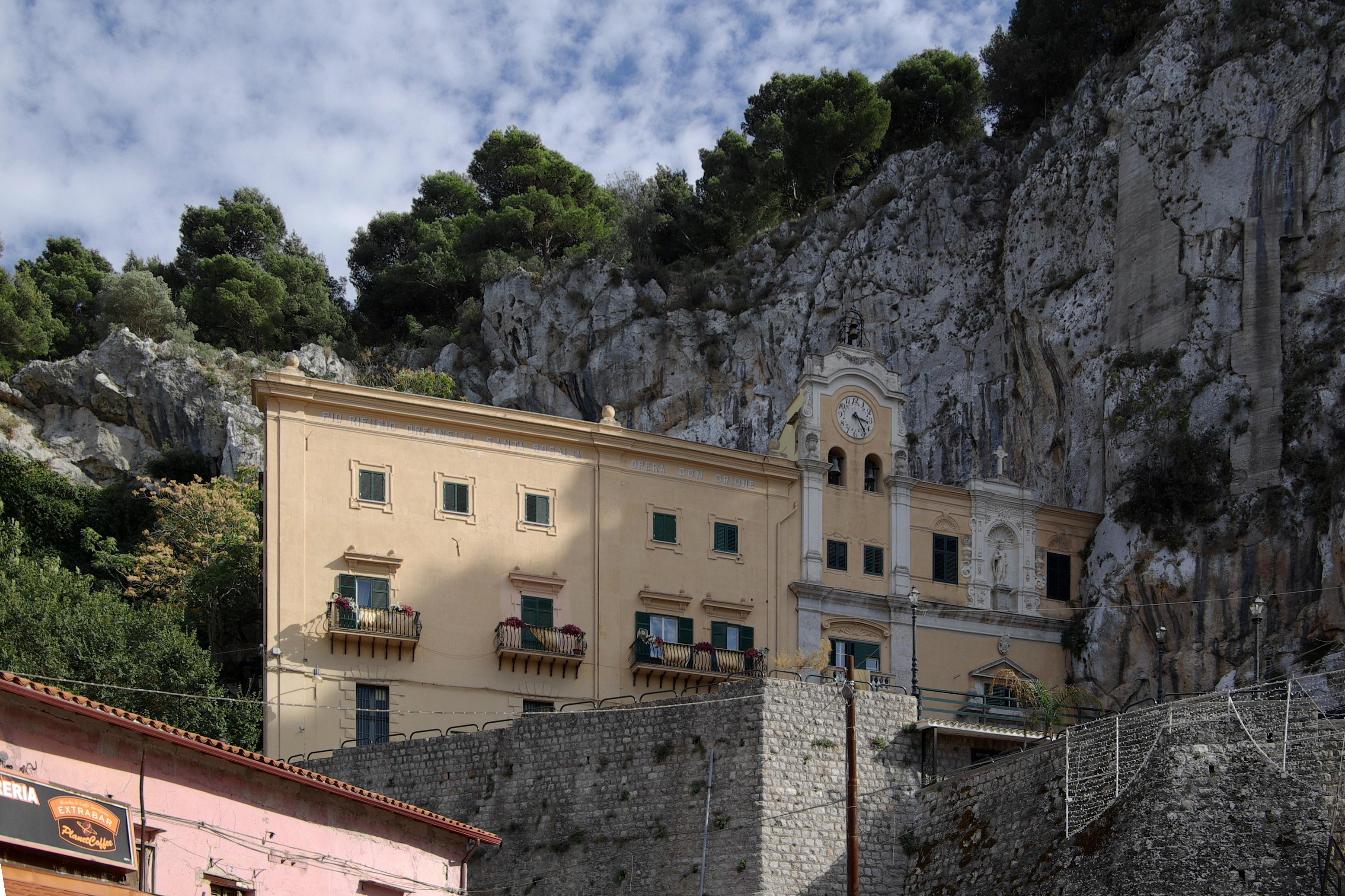 Italy, Sicily, Palermo, Monte Pellegrino